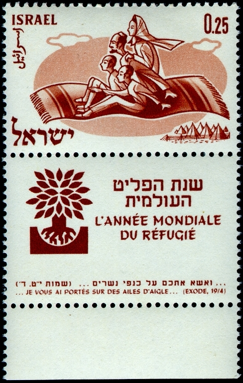 Israeli postage stamp dedicated to the World refugee year, quoting Exodus 19:4 - 0.25 Israeli lira